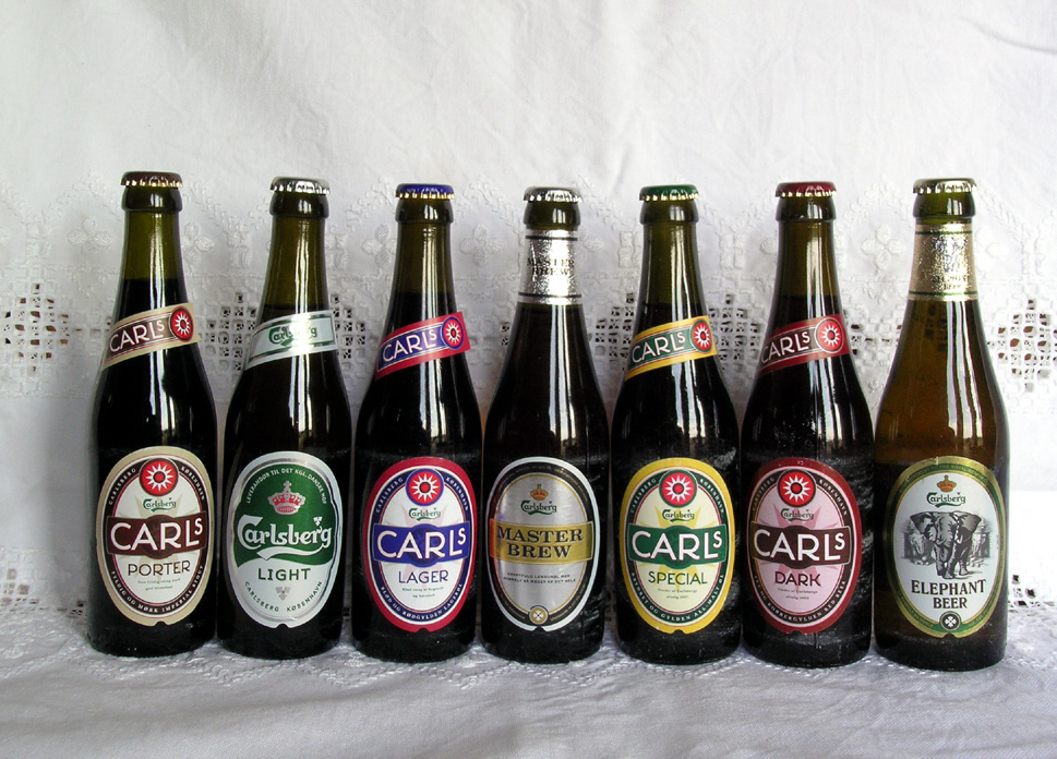 Carlsberg beers. From left: Carls porter, Carlsberg Light, Carls lager,Carlsberg Master Brew, Carls special, Carls dark, Elephant beer.